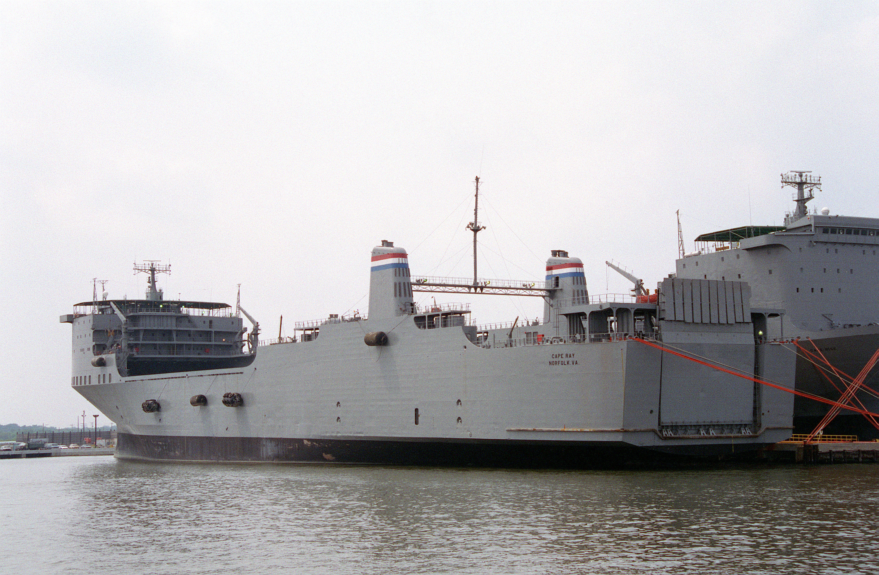 A file photo taken Aug. 26, 1994 shows a port quarter view of the Ready Reserve Force (RRF) vehicle transport ship Cape Ray (T-AKR-6663) moored at the Moon Engineering Company near Norfolk, Va.